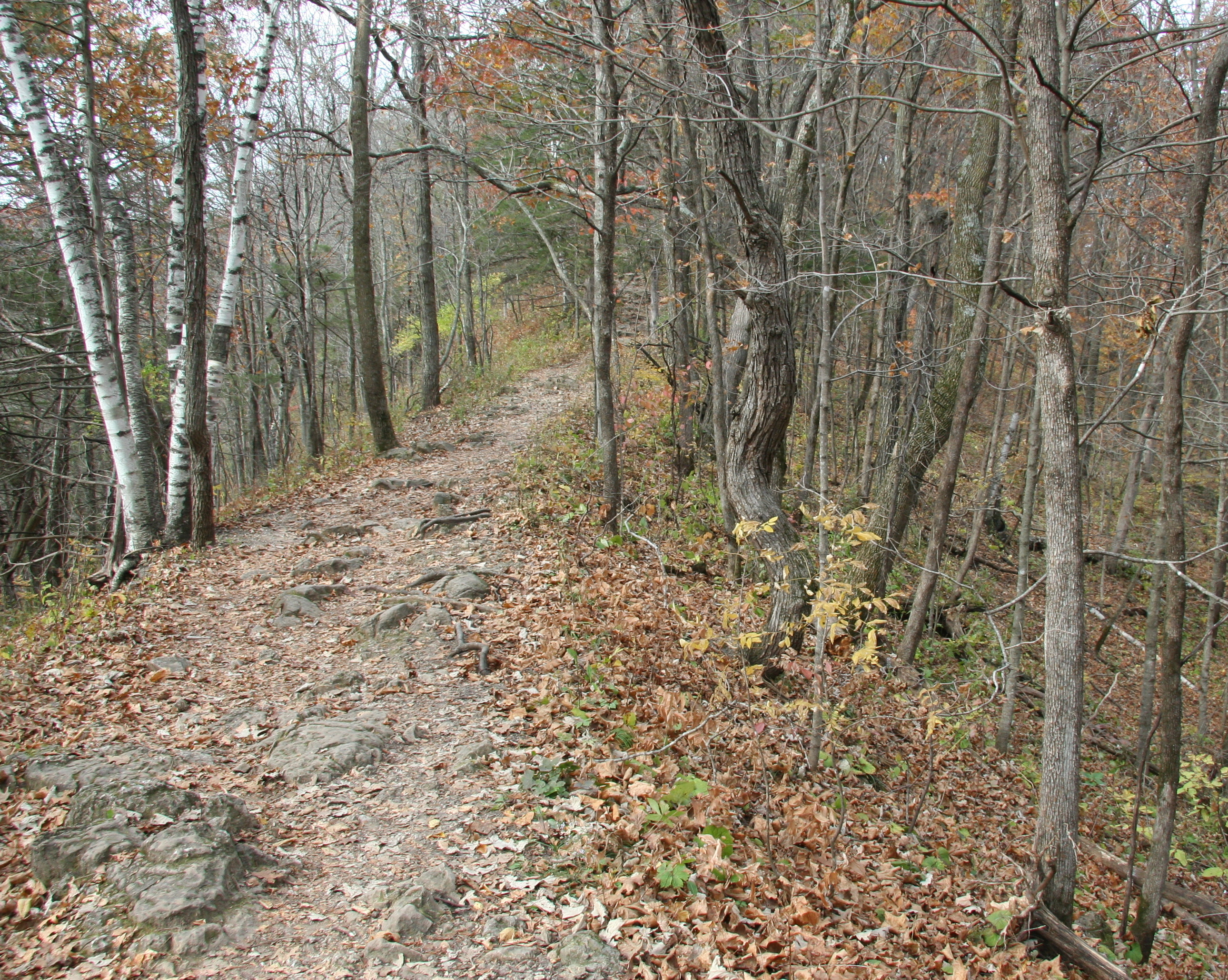 Hiking trail to Chimney Rock in Whitewater State Park, Minnesota